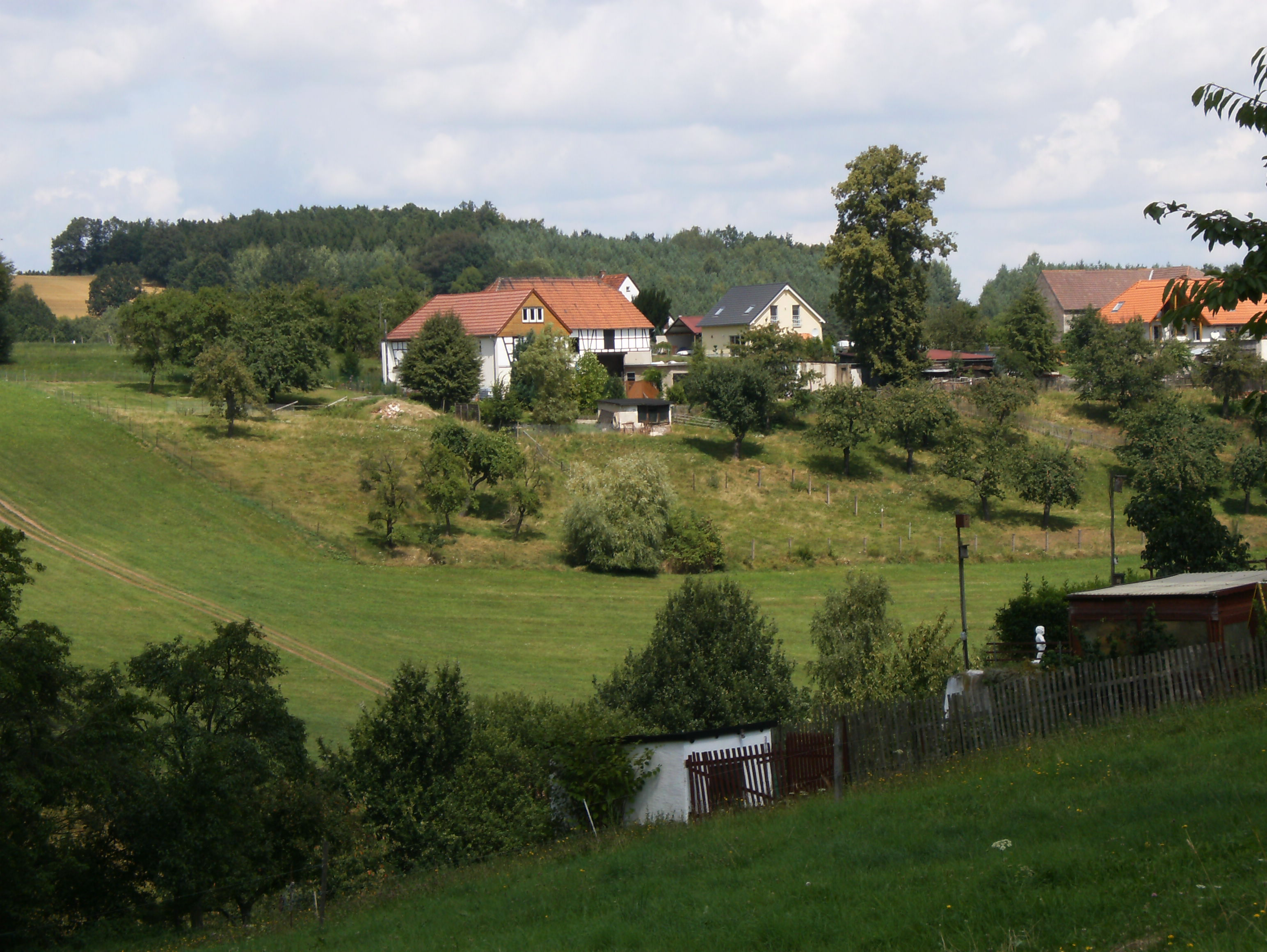 Gera Gorlitzsch, village view..